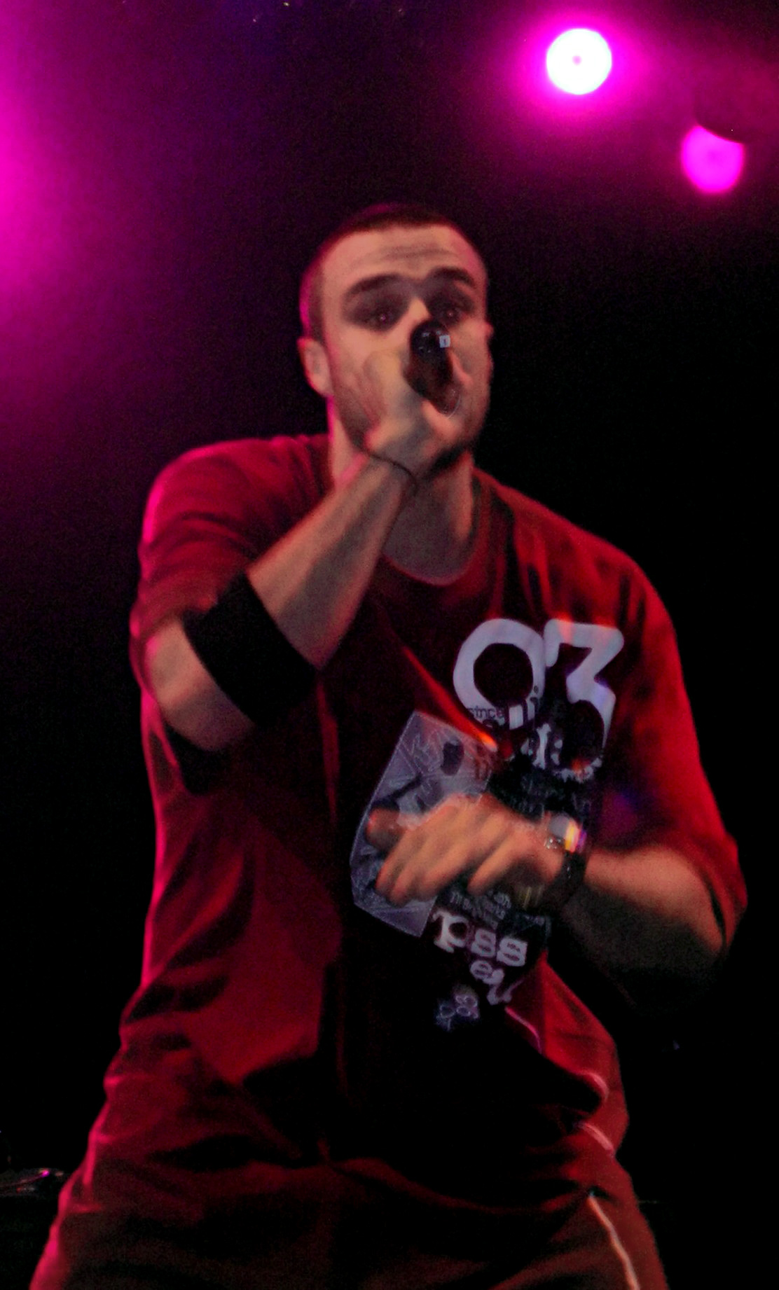 Tote King rhyming and acting live at the Bilbao Urban Musikaldia, at Vista Alegre bullring.